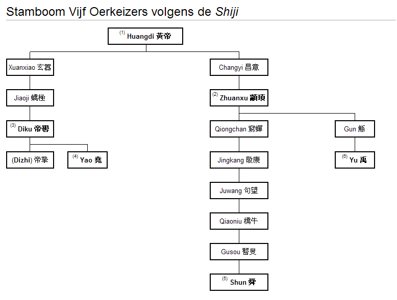 Genealogical tree of the Five mythical Emperors according to Shiji